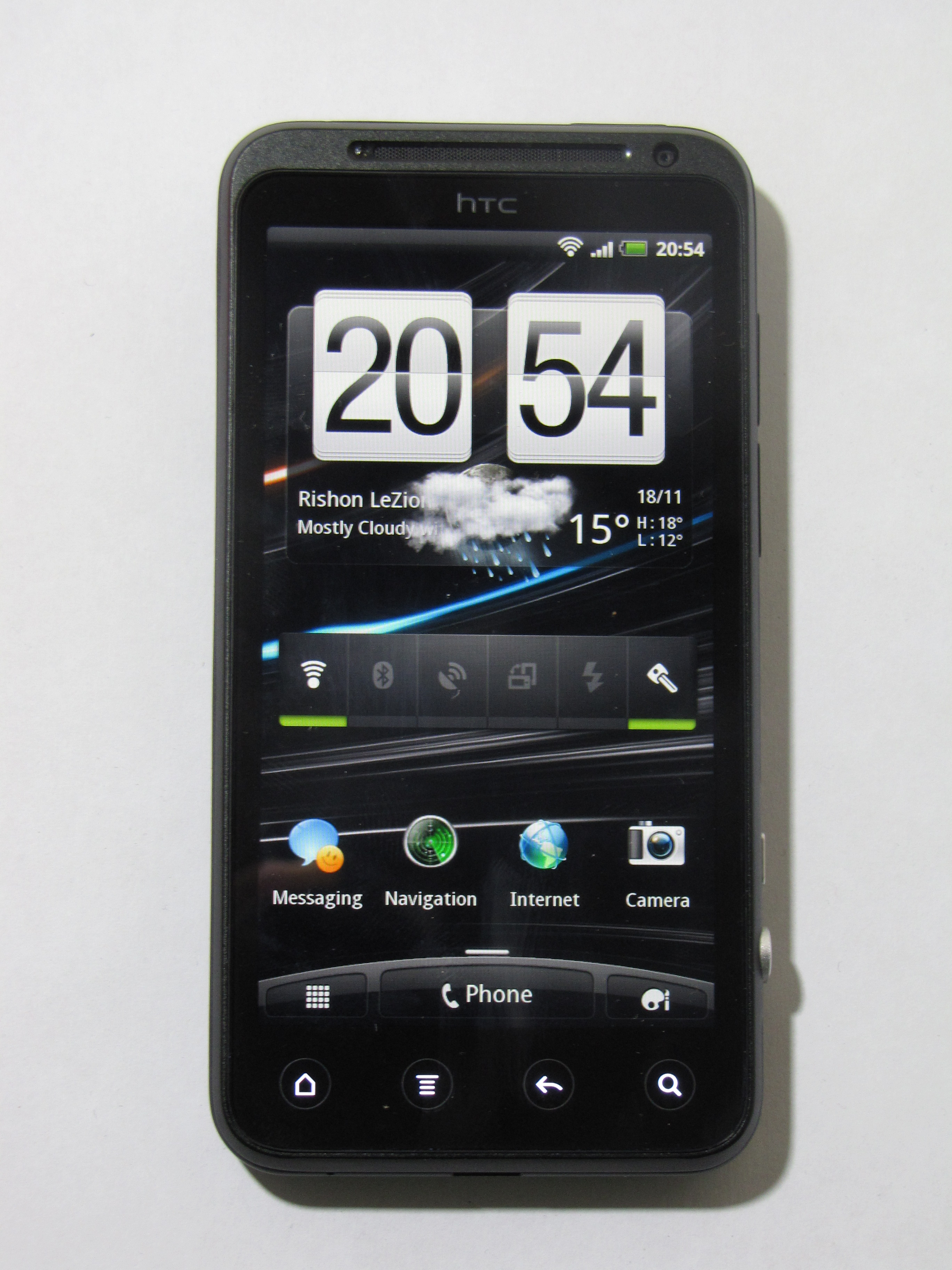 This is HTC Evo 3D picture I've taken using my own camera. This is my own smartphone.